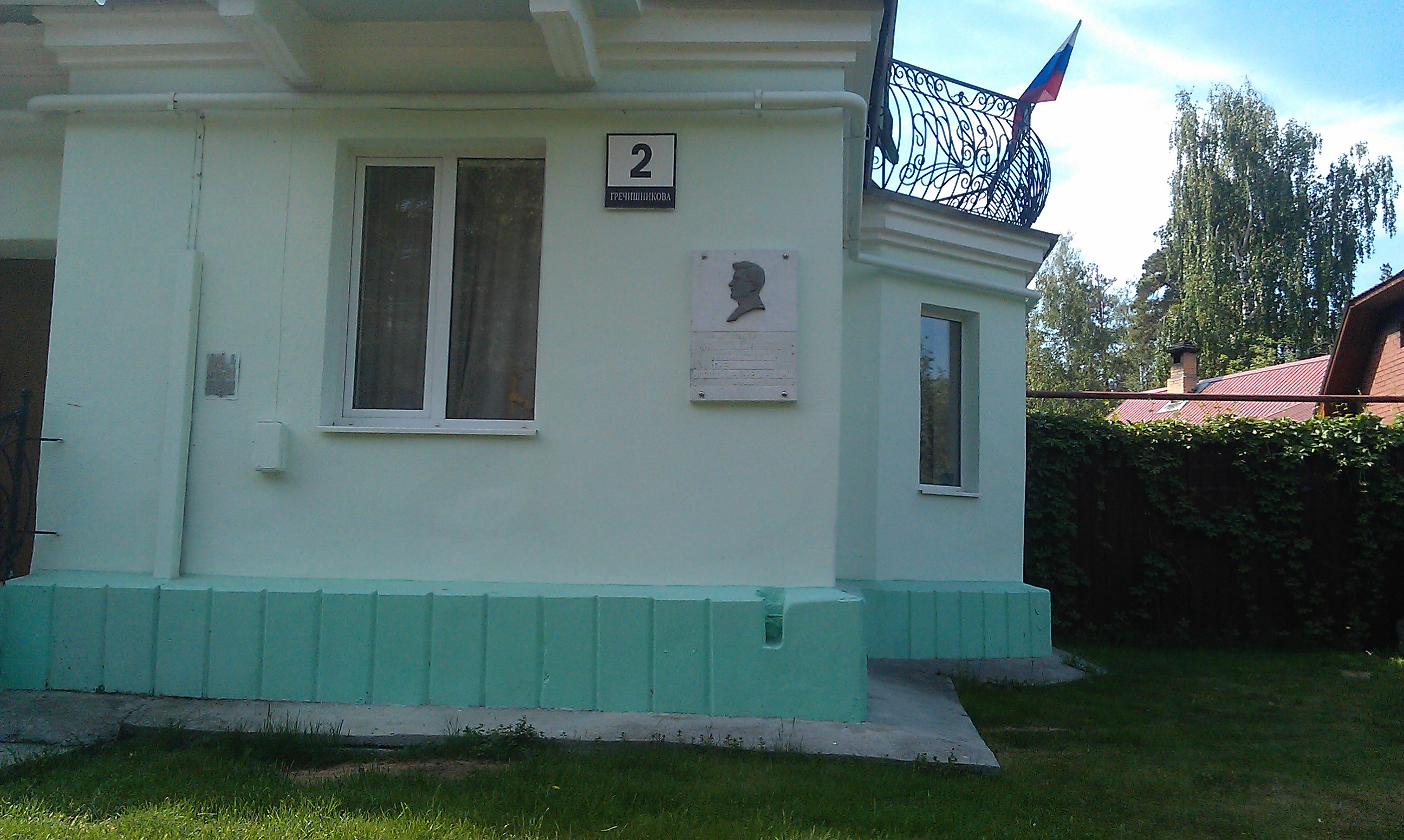 коттедж в Снежинске